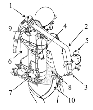 Diagram of a rocket belt (jet pack) for U.S. Patent 3,243,144.